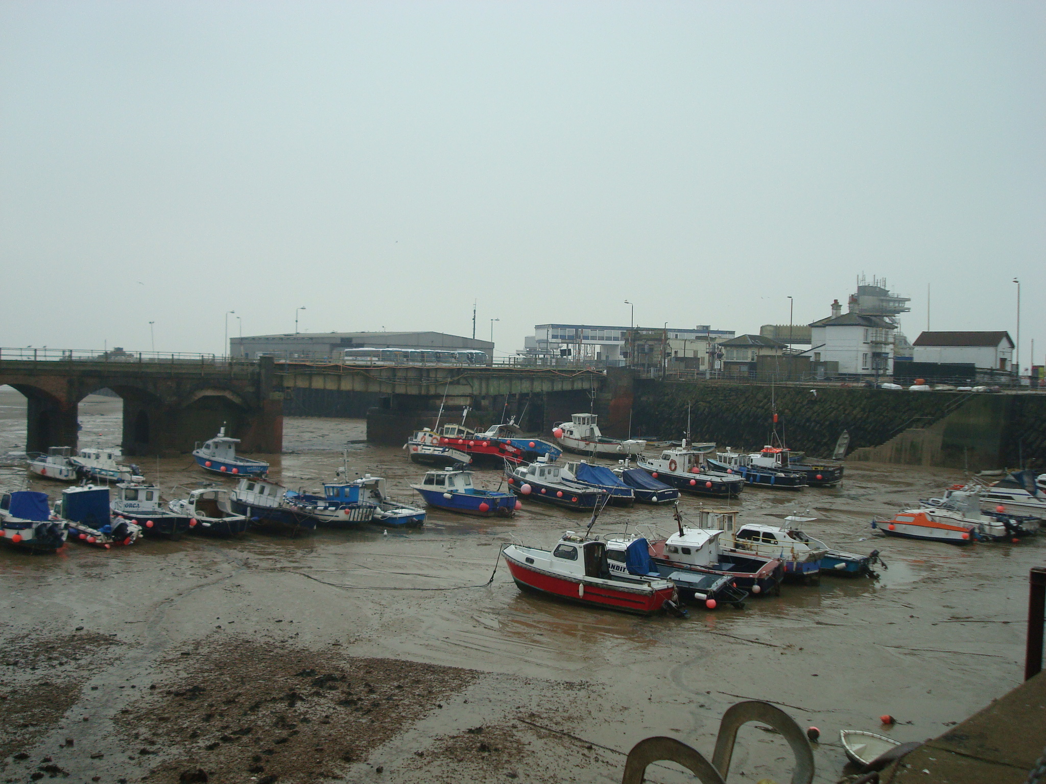 Inner Harbour, Folkestone